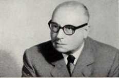 Enrique J. Muscio-empresario argentino